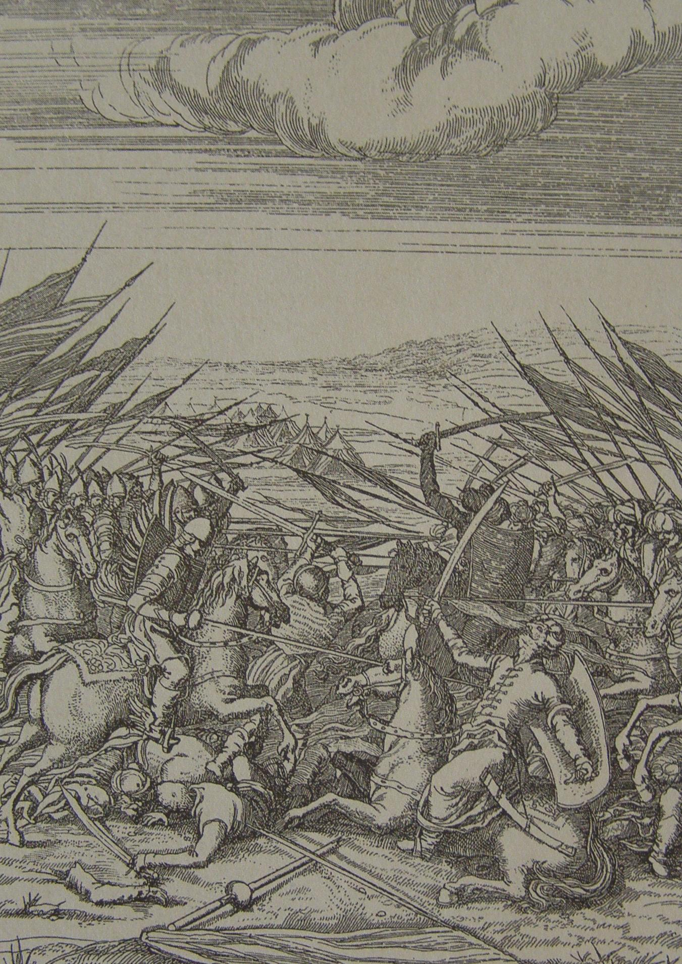 Hungarian cavalrys at feud with the Ottomans in the 16th century